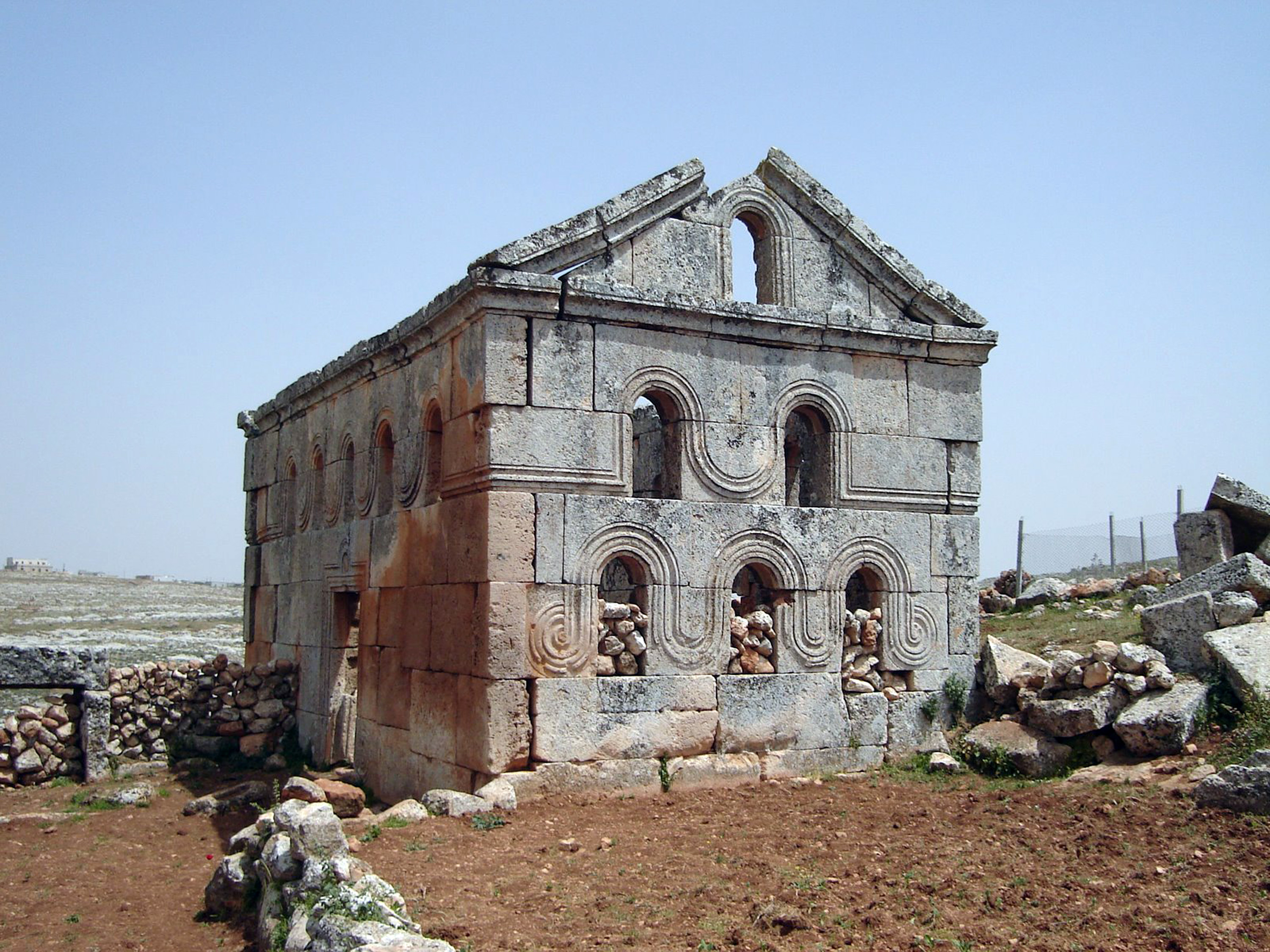 Barjaka chapel near Aleppo